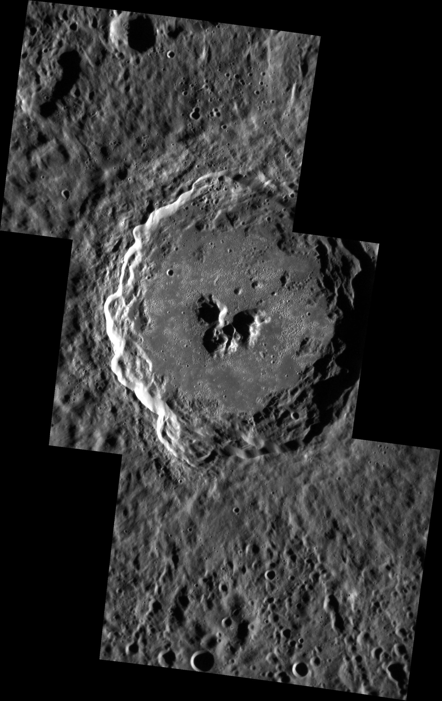 Date acquired: January 23, 2012 Image Mission Elapsed Time (MET): 235766888, 235766929, 235766969 Image ID: 1300010, 1300011, 1300012 Instrument: Narrow Angle Camera (NAC) of the Mercury Dual Imaging System (MDIS) Center Latitude: 21.90° Center Longitude: 1.78° E Resolution: 57 meters/pixel Scale: de Graft crater is approximately 68 km (42 mi.) in diameter. Incidence Angle: 73.5° Emission Angle: 37.1° Phase Angle: 110.7° Of Interest: The crater de Graft was named for 20th century Ghanaian playwright, poet, and novelist Joe de Graft following MESSENGER's second flyby of the innermost planet. The crater de Graft is a complex crater that hosts numerous bright hollows on its floor. This image is a mosaic of three NAC images taken as a sequence designed to target the crater. This image was acquired as a high-resolution targeted observation. Targeted observations are images of a small area on Mercury's surface at resolutions much higher than the 250-meter/pixel (820 feet/pixel) morphology base map or the 1-kilometer/pixel (0.6 miles/pixel) color base map. It is not possible to cover all of Mercury's surface at this high resolution during MESSENGER's one-year mission, but several areas of high scientific interest are generally imaged in this mode each week.